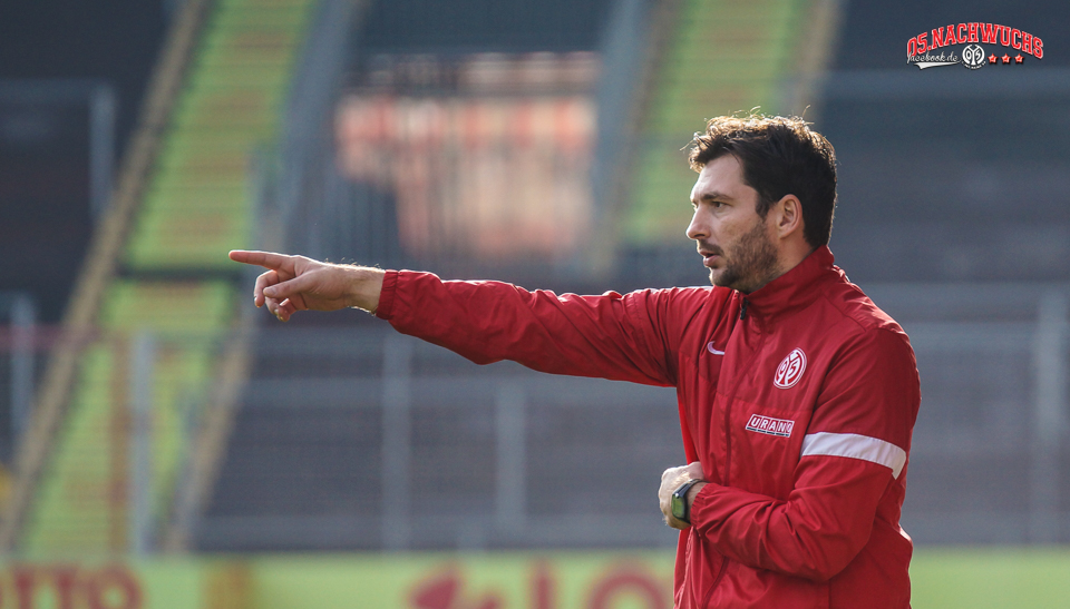 Sandro Schwarz, former soccer player for 1. FSV Mainz 05, as under 19s youth academys headcoach